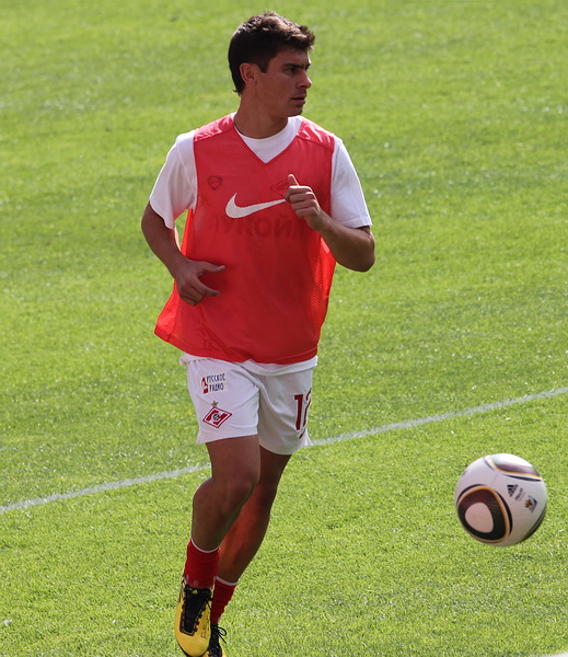 Alex Raphael Meschini